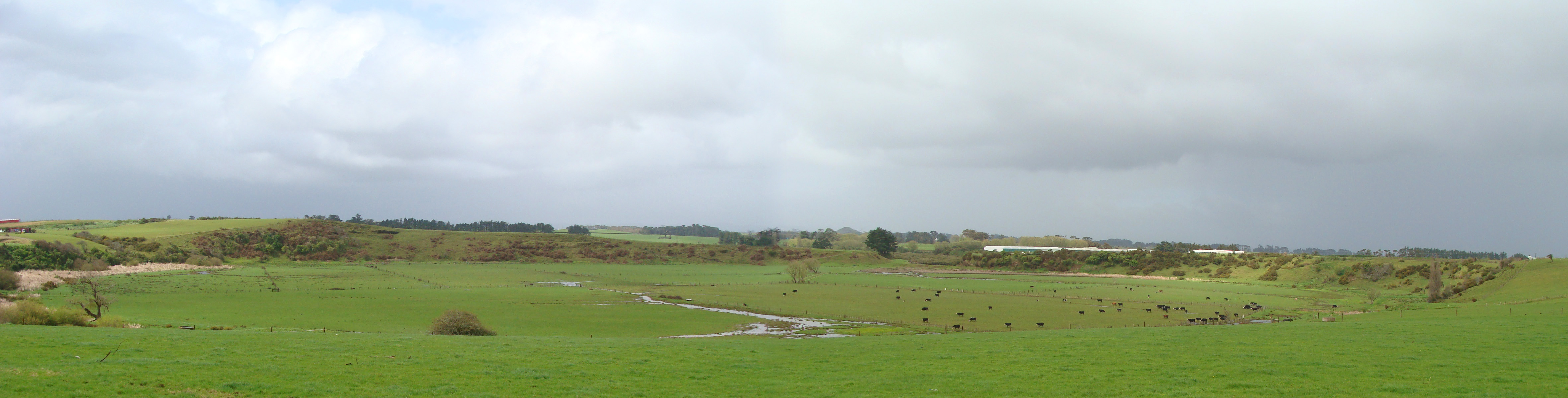 Pukaki volcanic crater, Auckland, New Zealand